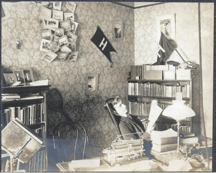 Robert Yerkes sitting at his desk in Reed Hall, Harvard University